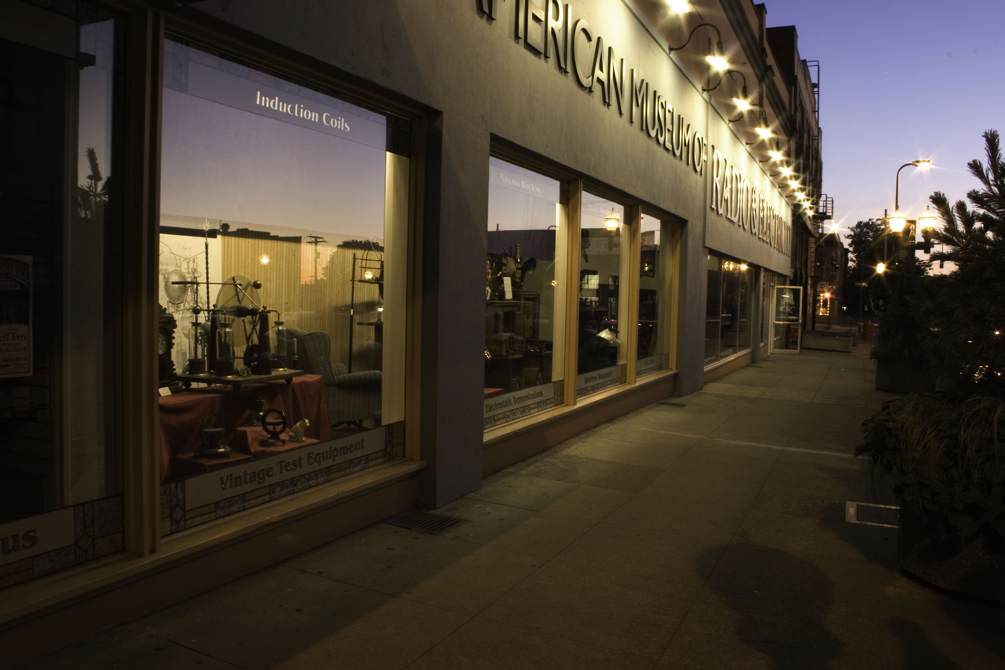 American Museum Of Radio And Electricity Front